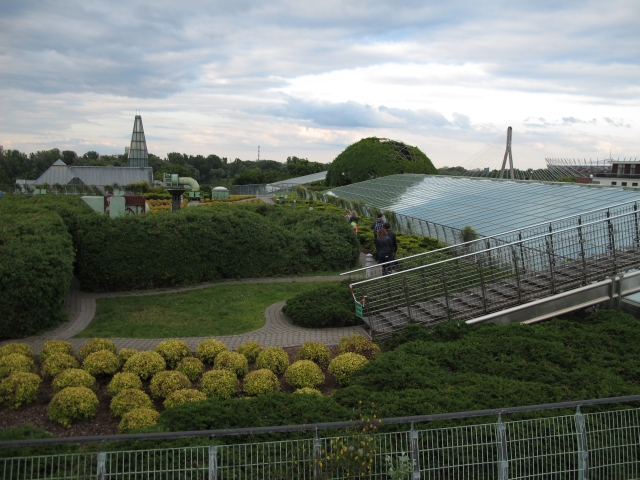 The rooftop garden on top of the Warsaw University Library